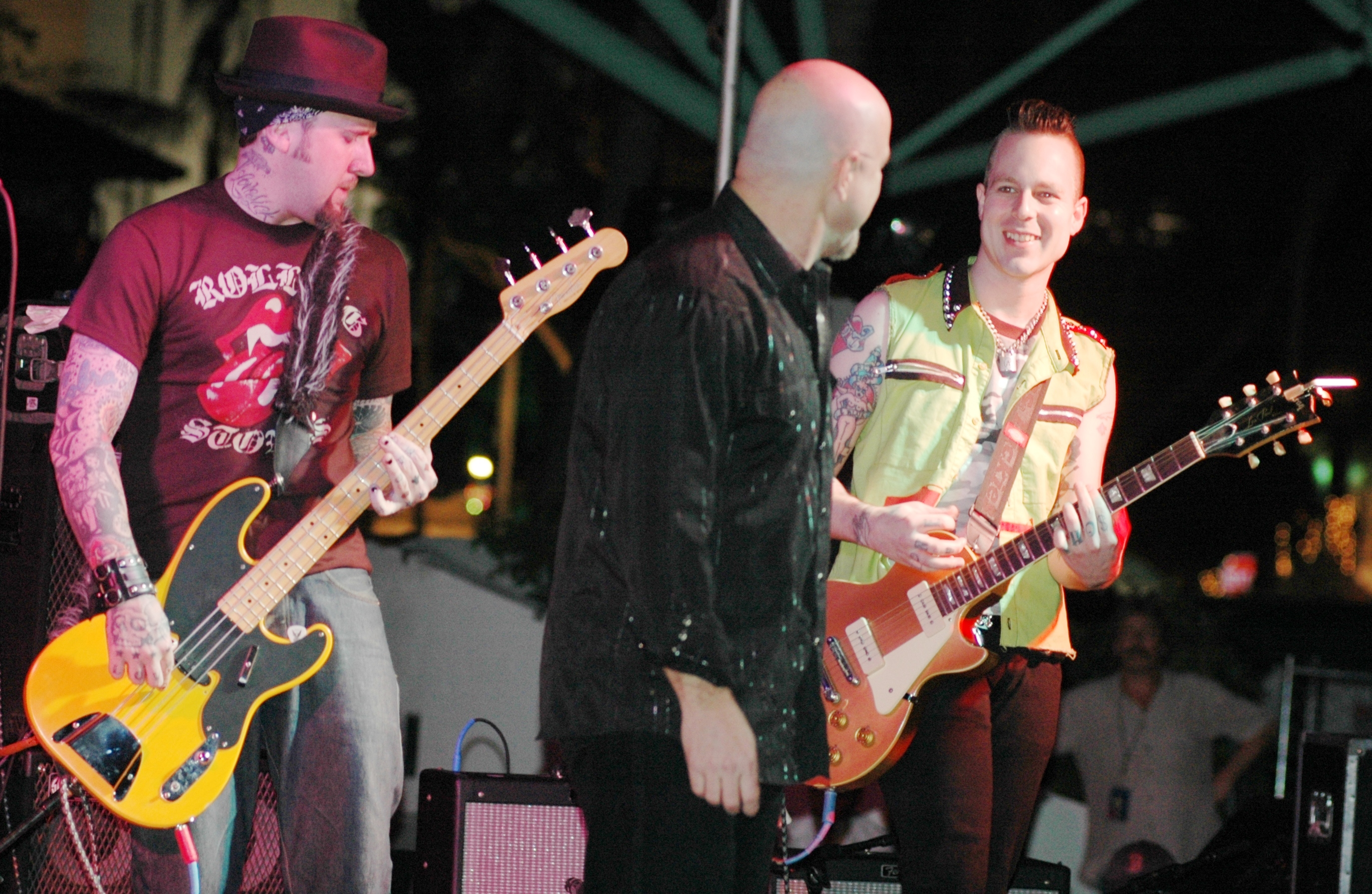 The Fabulous Thunderbirds performing at the Riverwalk Blues Festival in Fort Lauderdale, FL.